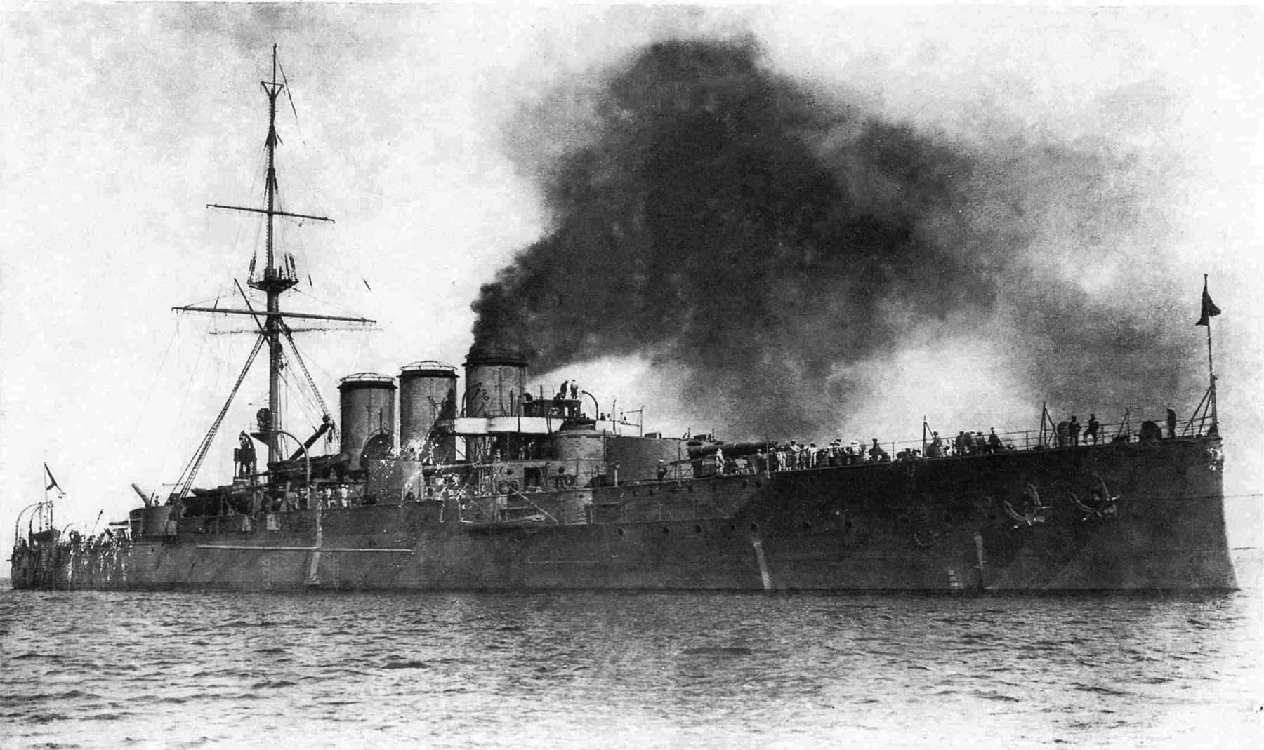 Imperial Russian cruiser Ryurik, summer 1908.